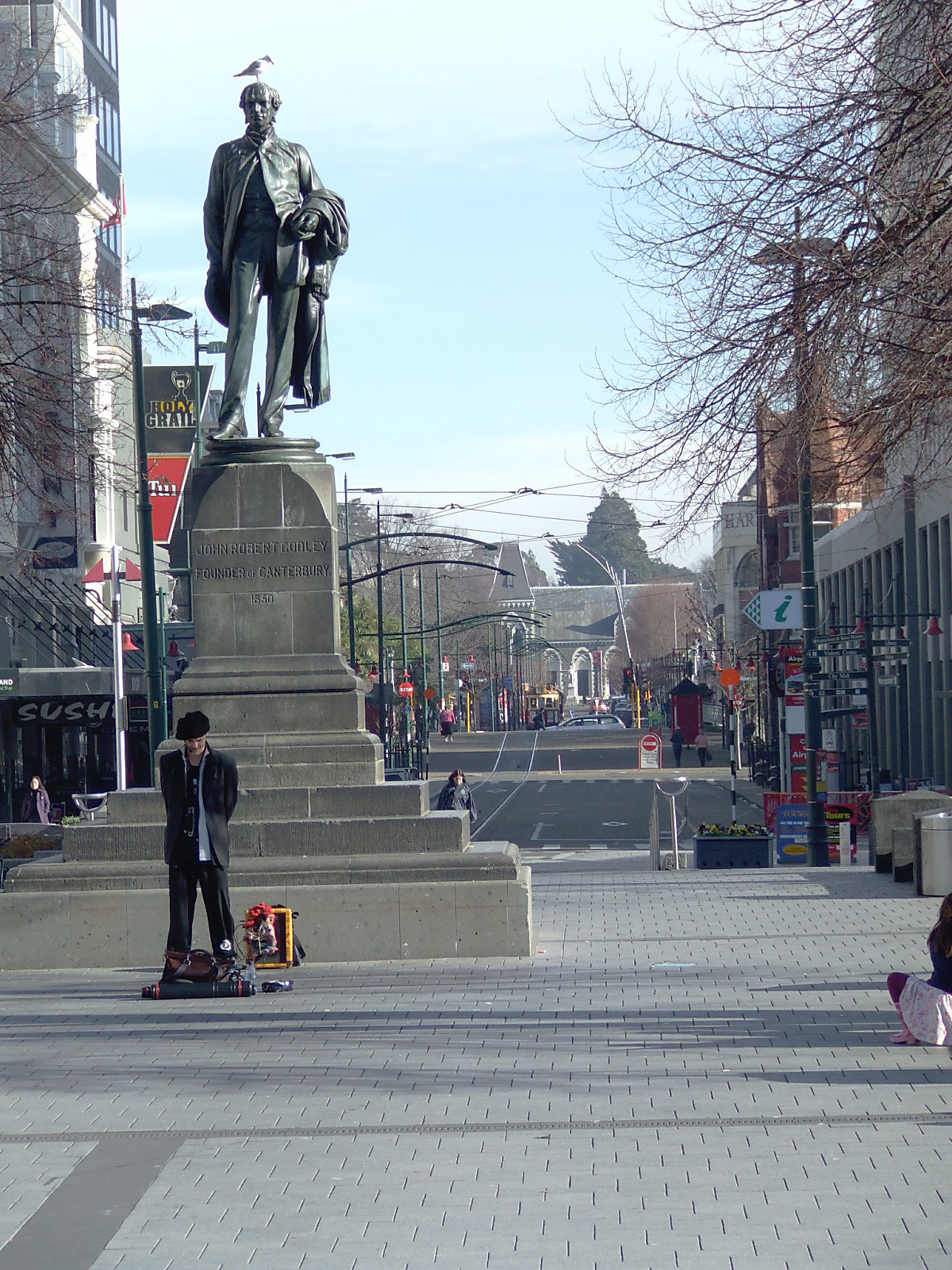 A street performer prepares himself for a show in Cathederal Square, Christchurch New Zealand